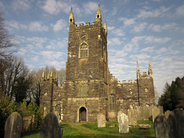 Church of St Martin and St Giles, Werrington